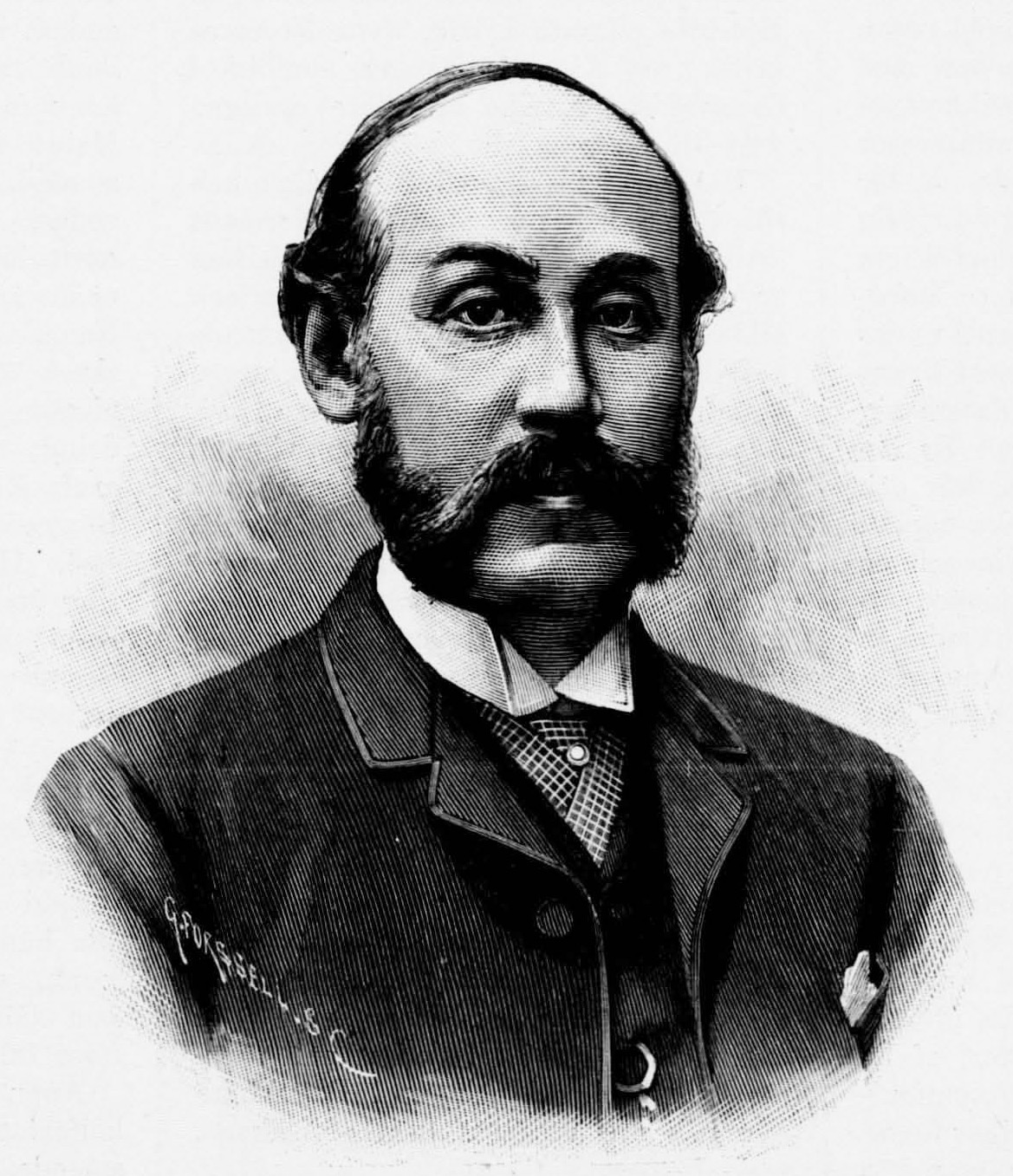 John Jacobsson (1835-1909)